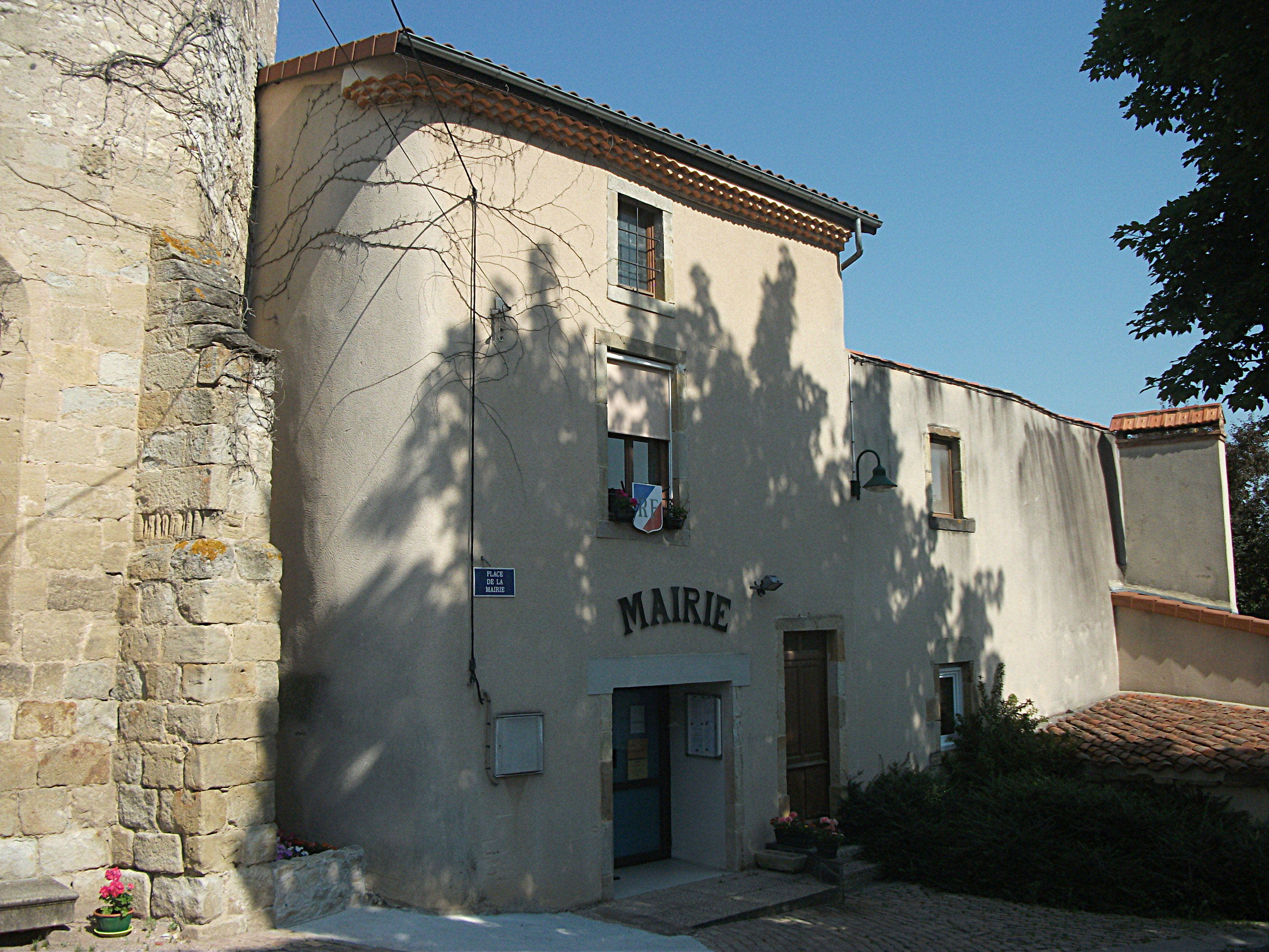 Town hall of Reignat, Puy-de-Dôme, Auvergne-Rhône-Alpes, France. [14706]